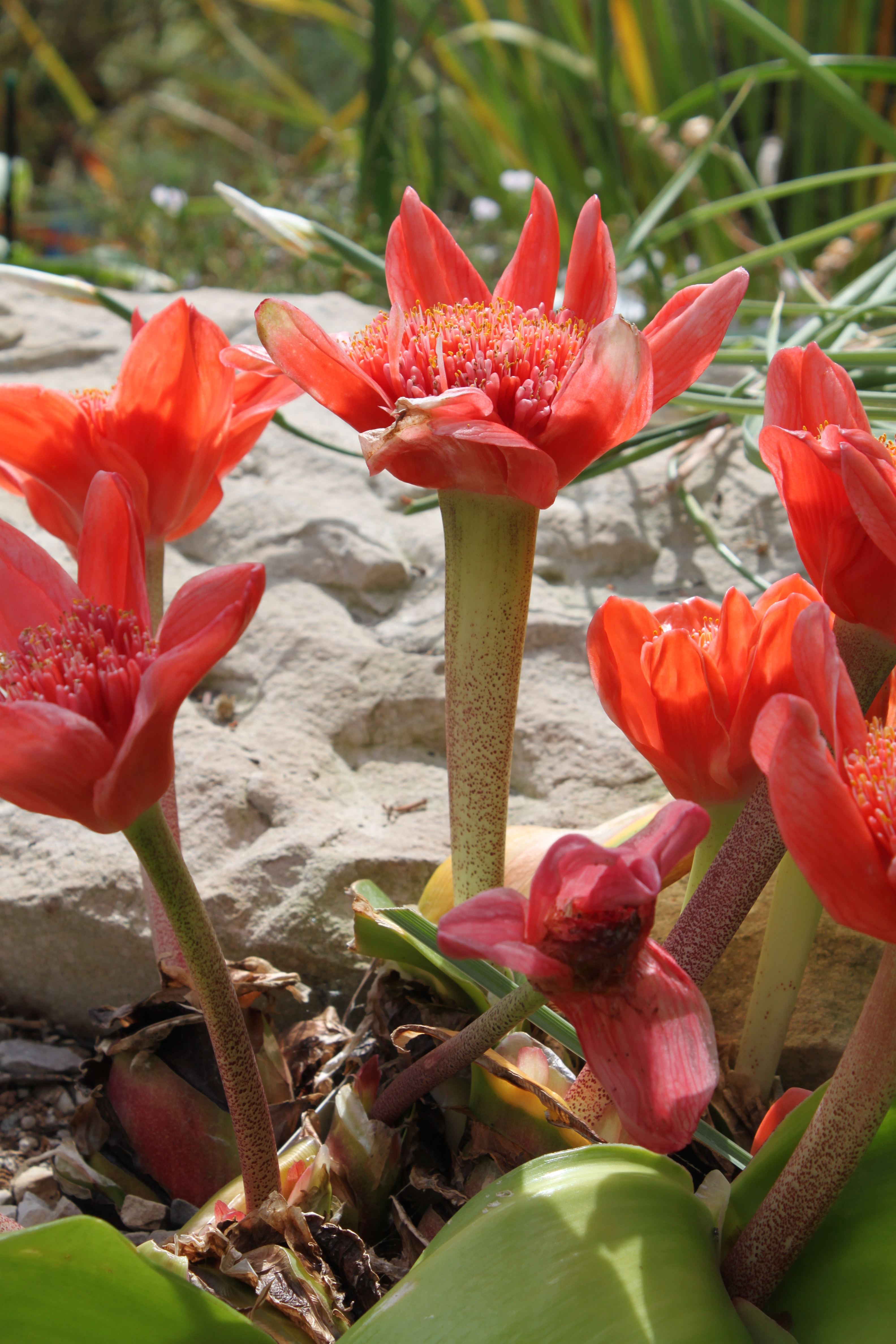 Haemanthus coccineus in the Great Glass House at the National Botanic Garden of Wales